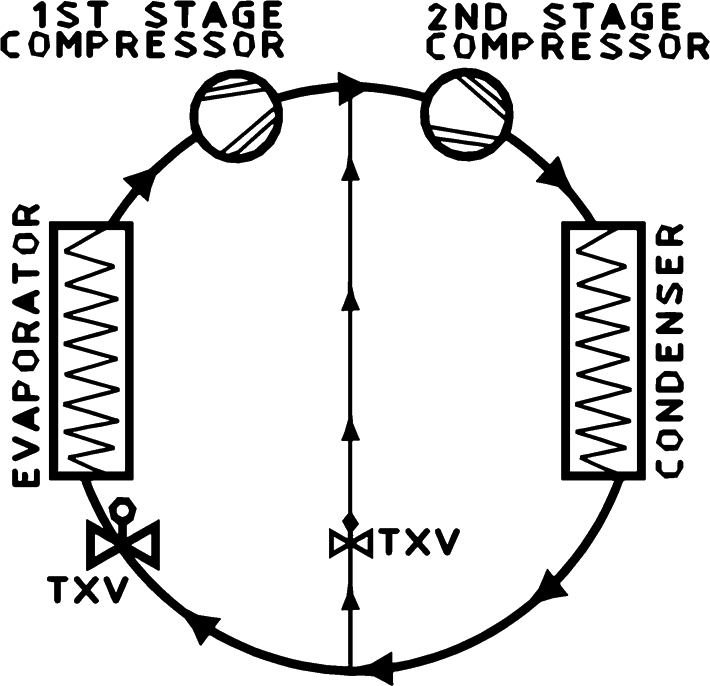 Simple Two Staged Refrigeration Cycle